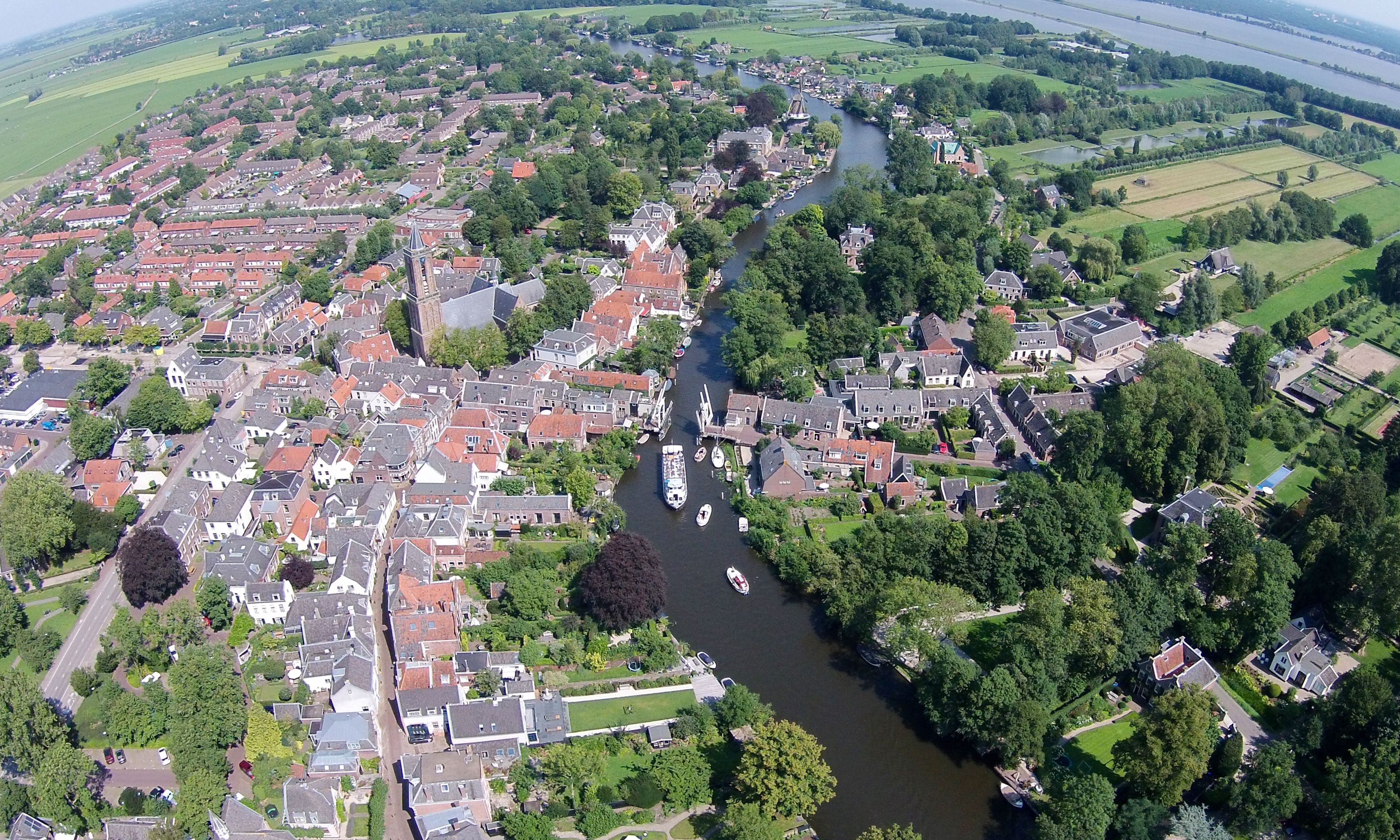 Loenen aan de Vecht